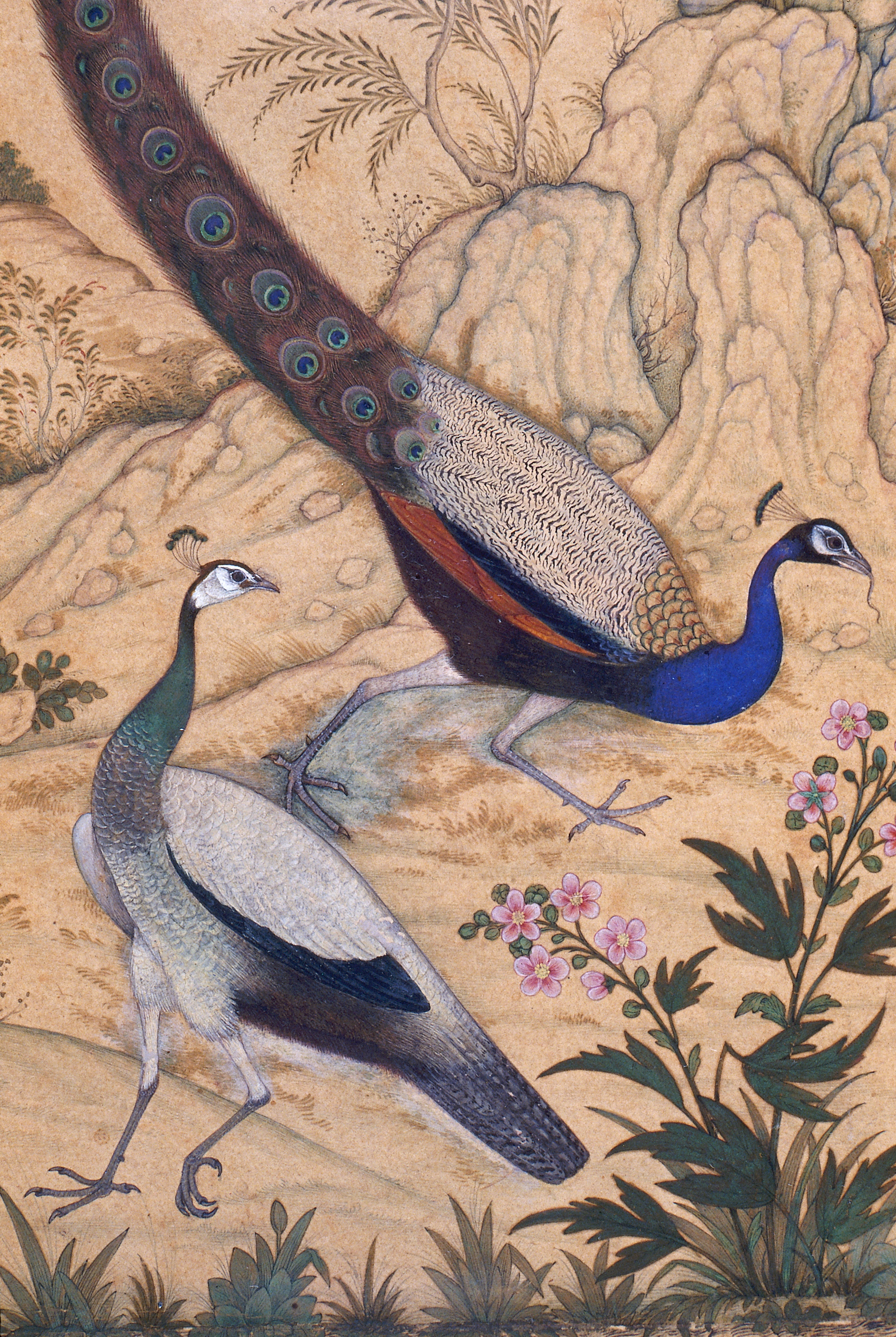 Illustration by Ustad Mansur, known as Nãdir-al-’Asr ("Unequalled of the age"). 17th century Mughal artist.